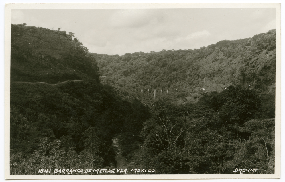 Title: Barranca de Metlac Ver. Mexico Creator: Brehme, Hugo, 1882-1954 Date: ca. 1906-1920 Part Of: Brehme photographs of Mexico Place: Fortin de las Flores, Veracruz-Llave, Mexico Physical Description: 1 photographic print (postcard) File: ag1988_0700_1841c_02_barranca.jpg Rights: Please cite DeGolyer Library, Southern Methodist University when using this file. A high-resolution version of this file may be obtained for a fee. For details see the web page. For other information, . For more information and to view the image in high resolution, see: View the Mexico: Photographs, Manuscripts, and Imprints Collection